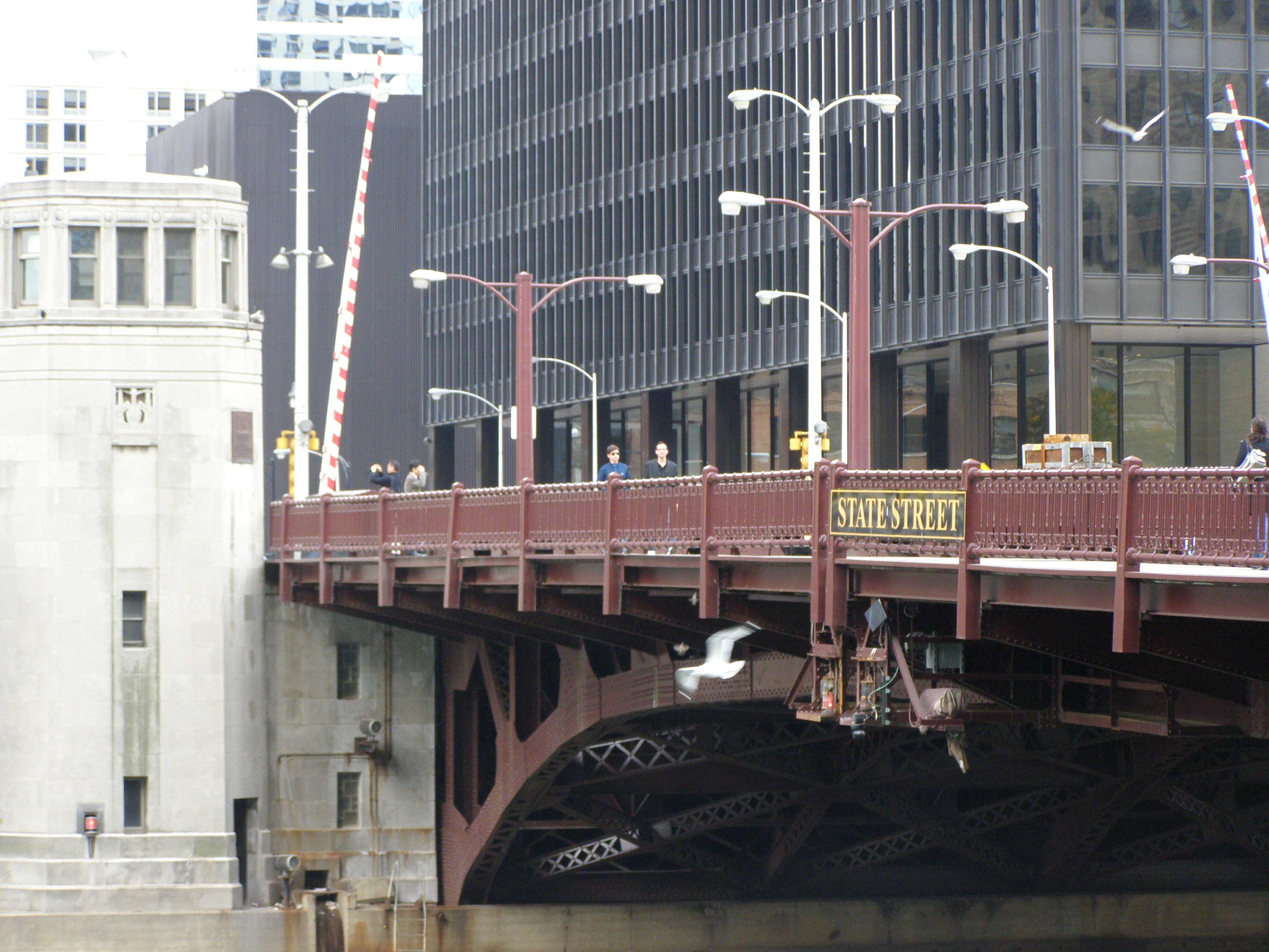 State Street Bridge over the Chicago River in Chicago, Illinois.